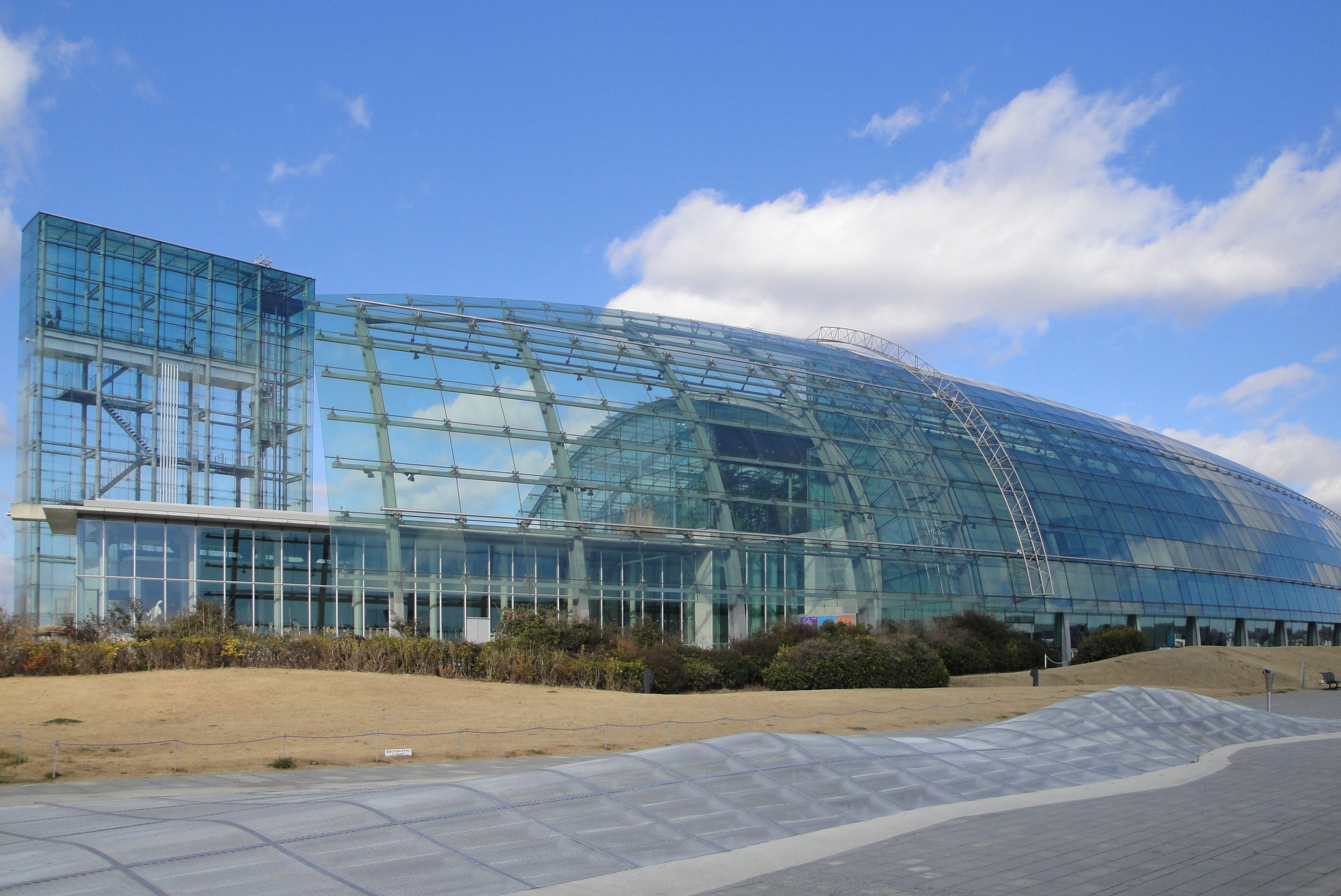 The Aquamarine Fukushima aquarium complex in Iwaki, Fukushima Prefecture, Japan